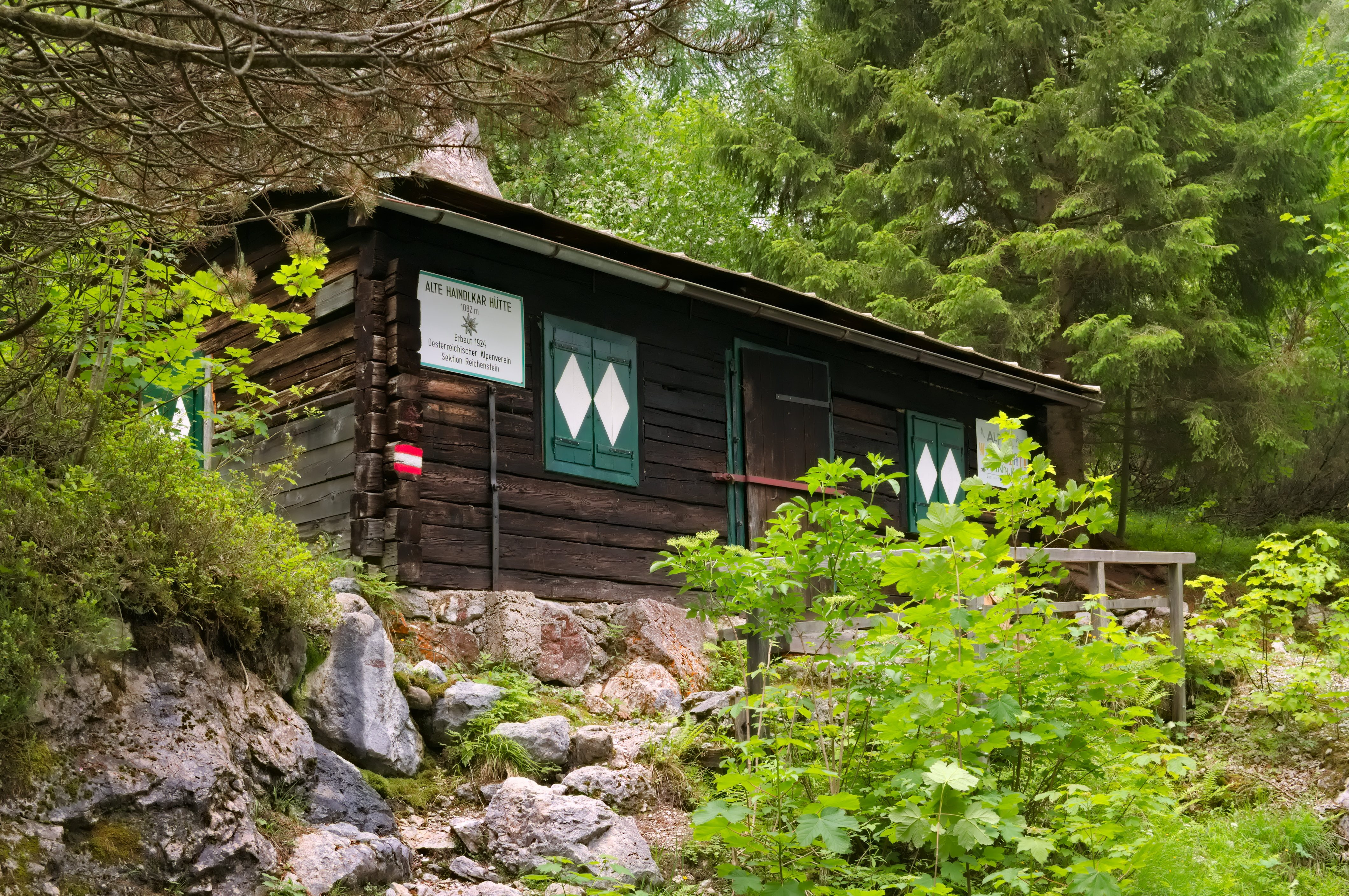 The old building of the Haindlkarhütte in Nationalpark Gesäuse, Austria. The current hut is located a bit further up along the way.